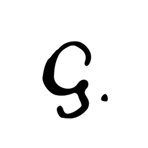 blue under glaze, used amongst others 1802–1834, after 1813 black, gold, or yellow over glaze